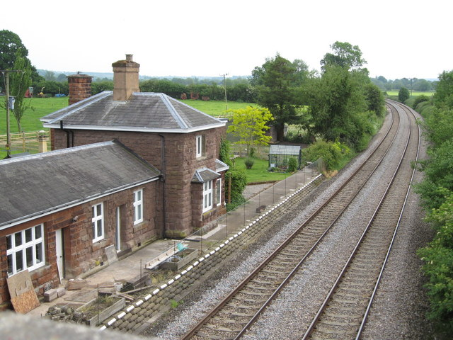 Eye railway station Original description: Eye - railway line and former station